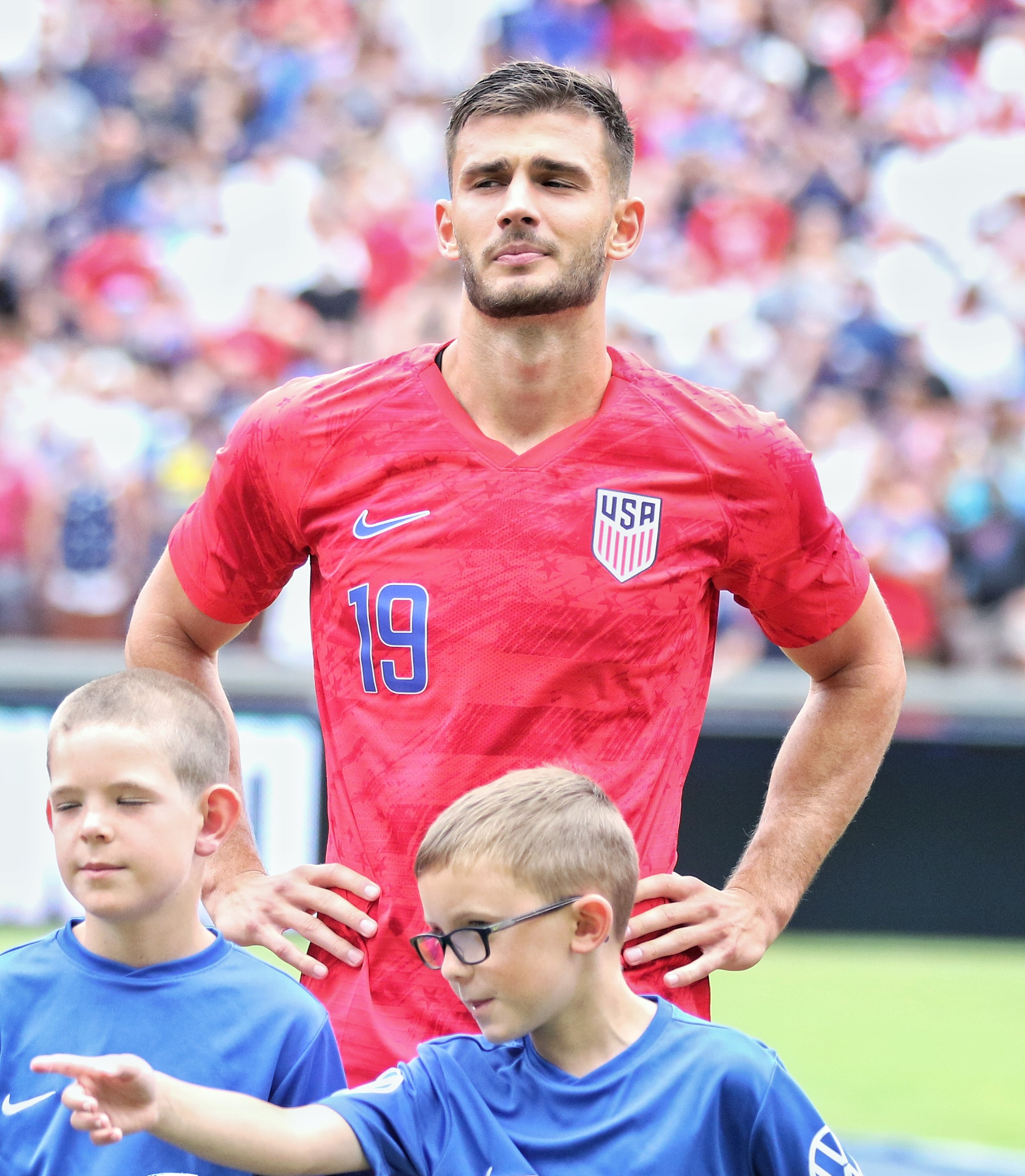 Matt Miazga representing the United States men's national soccer team on June 9, 2019.